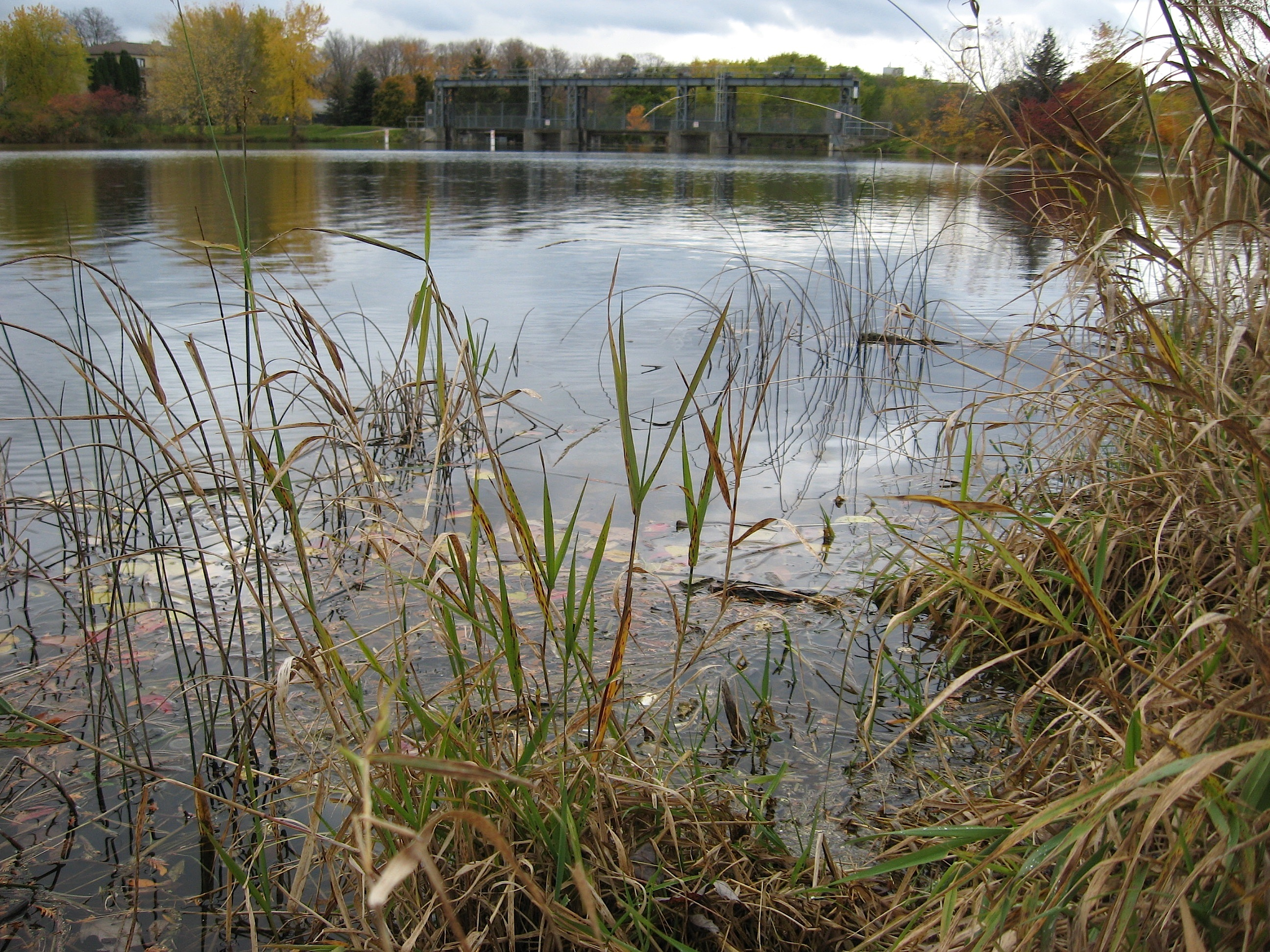 View of riparian restoration of east bank of Speed River, Guelph, Ontario